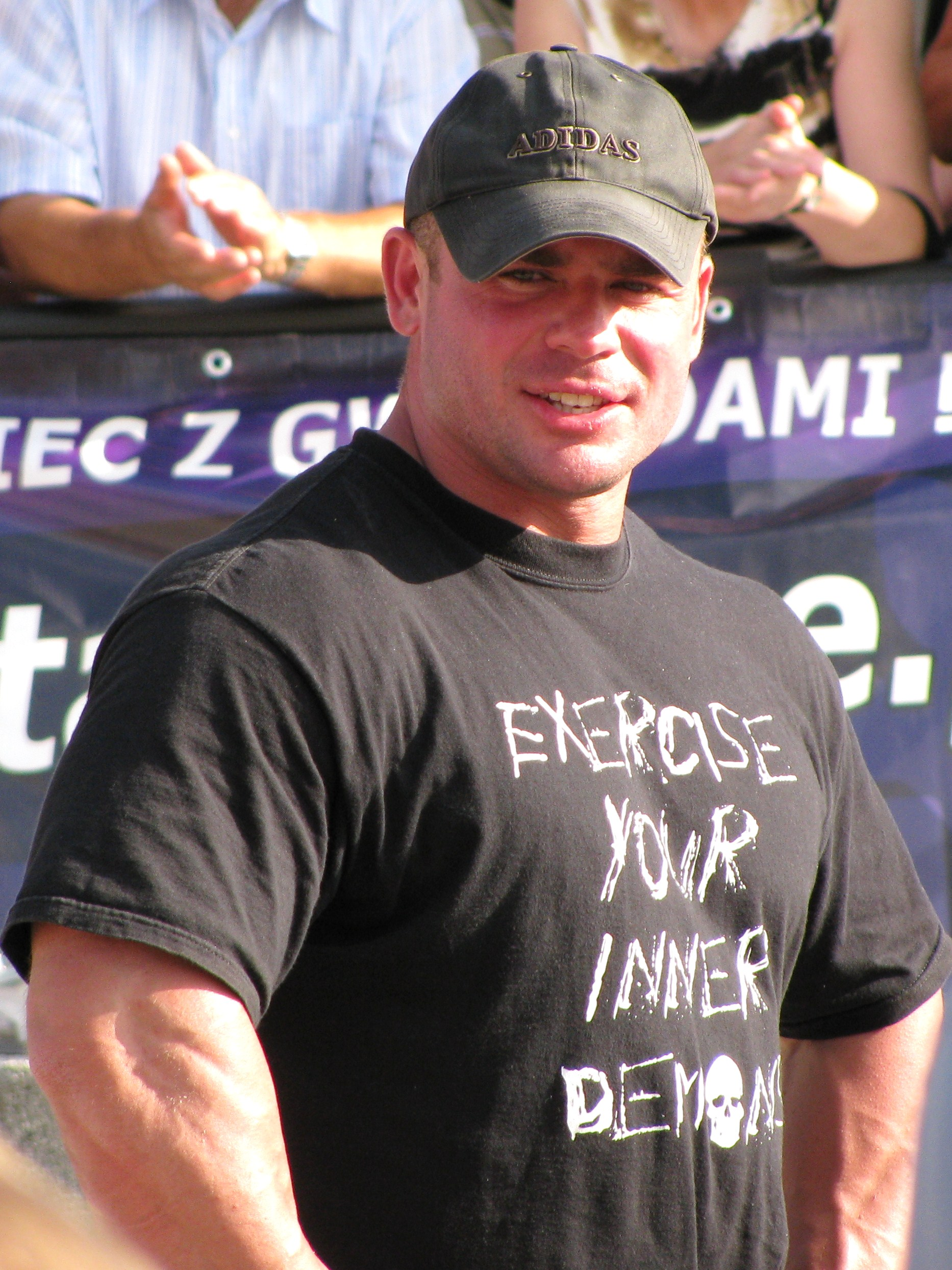 Wojciech Szymkowiak - a strength athlete & bodybuilder from Poland